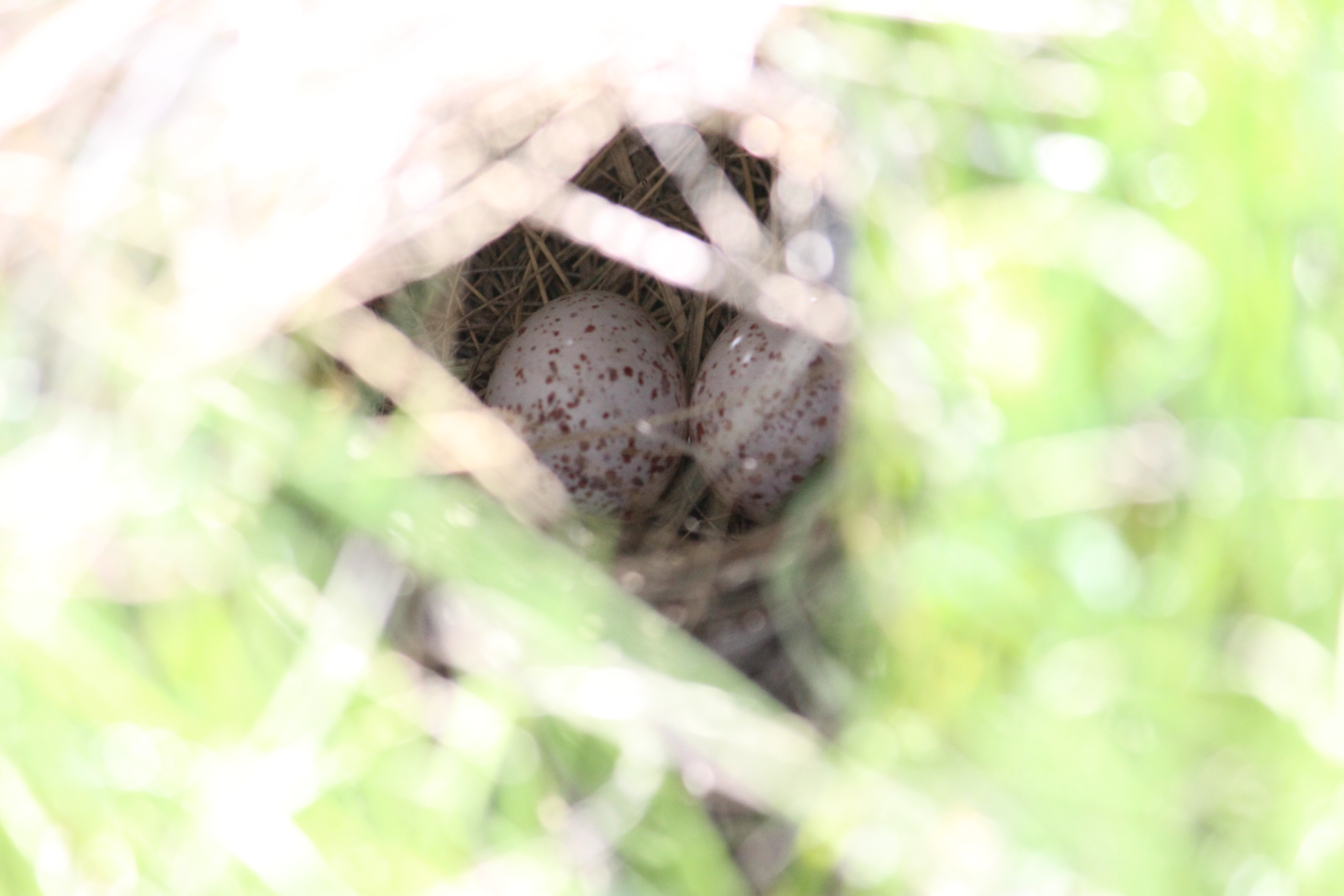 Here's a peak into a Western Meadowlark's nest that was found on the Cornell WPA in LaMoure County, ND. Photo Credit: Krista Lundgren/USFWS